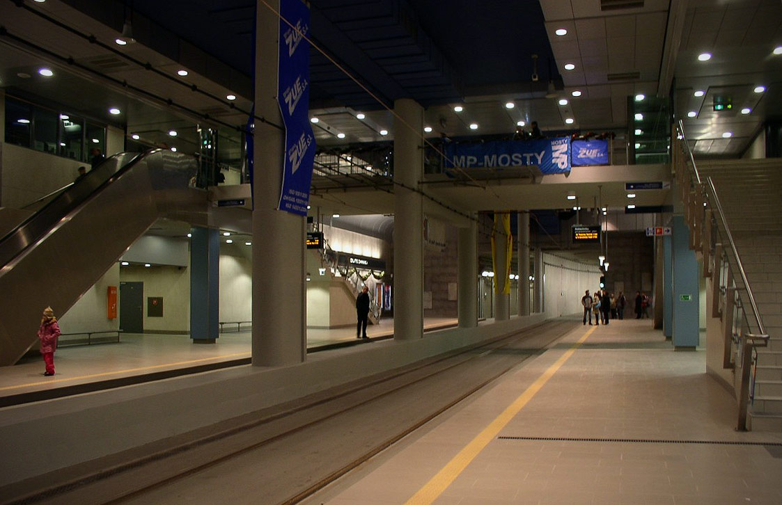 The Politechnika underground station in Krakow tram tunel.